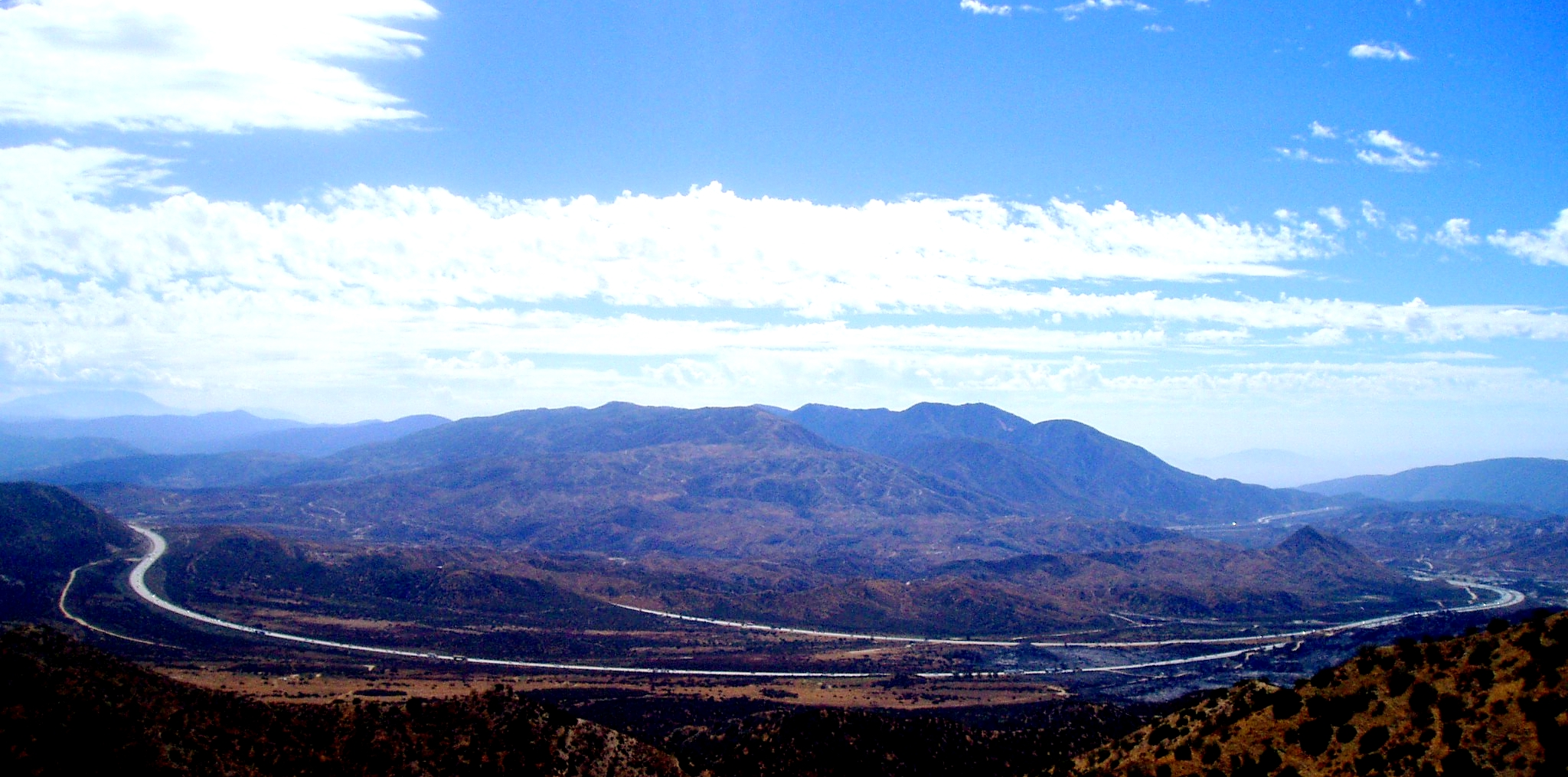 Taken during Runway Fire. San Bernardino National Forest